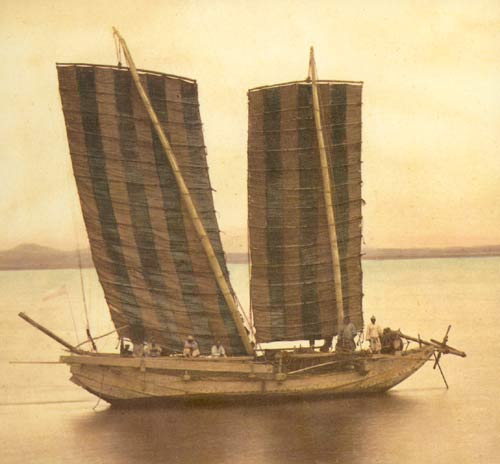 “A Korean fishing junk with sails, May 1871. This photograph was taken before the Americans reached, and anchored at, the mouth of the Han river. As such, it is probably the first time that Koreans, albeit from a distance, were captured on camera.” – See Sinmiyangyo for the events that followed.For even older photographs of Koreans, see Image:Koreans oldest pic 3.jpg, Image:Koreans oldest pic close.jpg, Image:Koreans oldest pic seated.jpg, Image:Koreans oldest pic side.jpg and Image:Koreans oldest pic group.jpg.